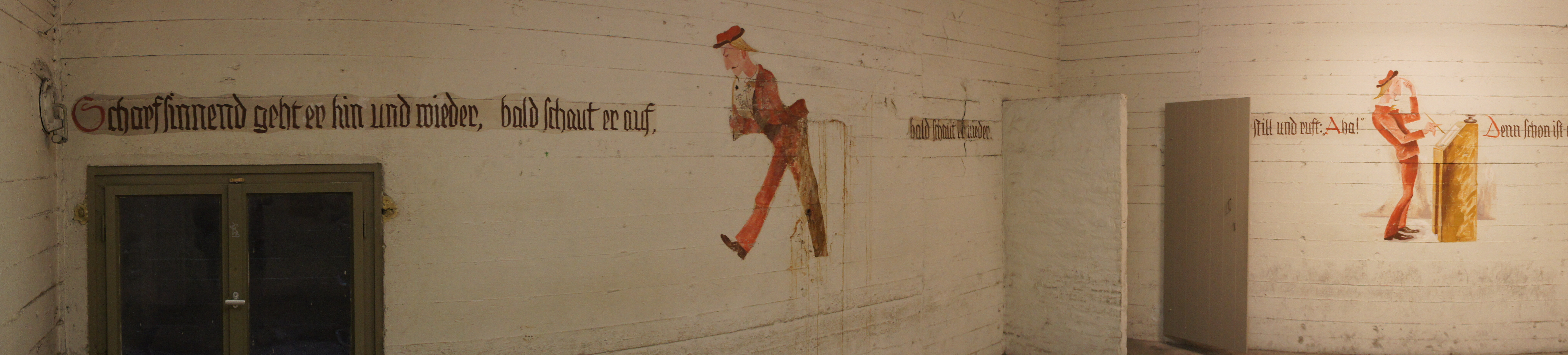 Drawings inspired by Wilhelm Busch at Tempelhof airport